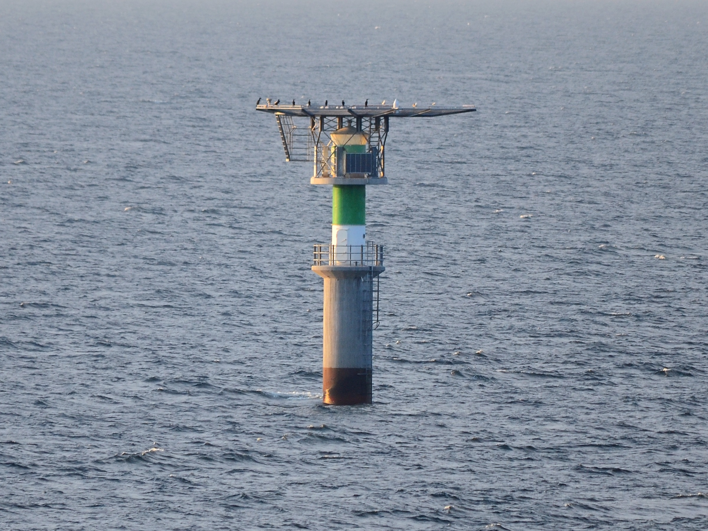 The lighthouse Märketskallen between Understen and Märket in South Kvarken, Baltic Sea.